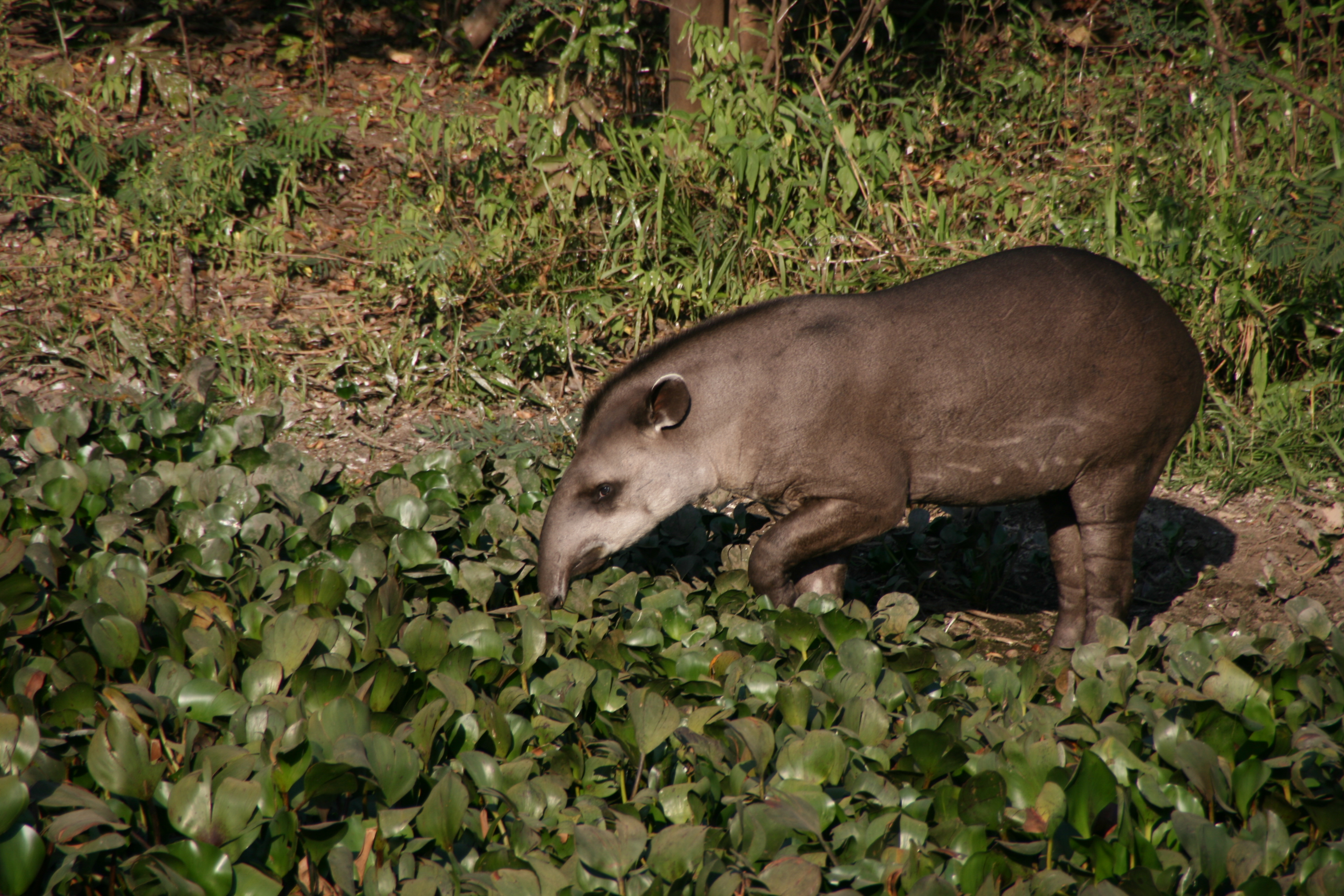 A Brazilian tapir in Pantanal wetland.